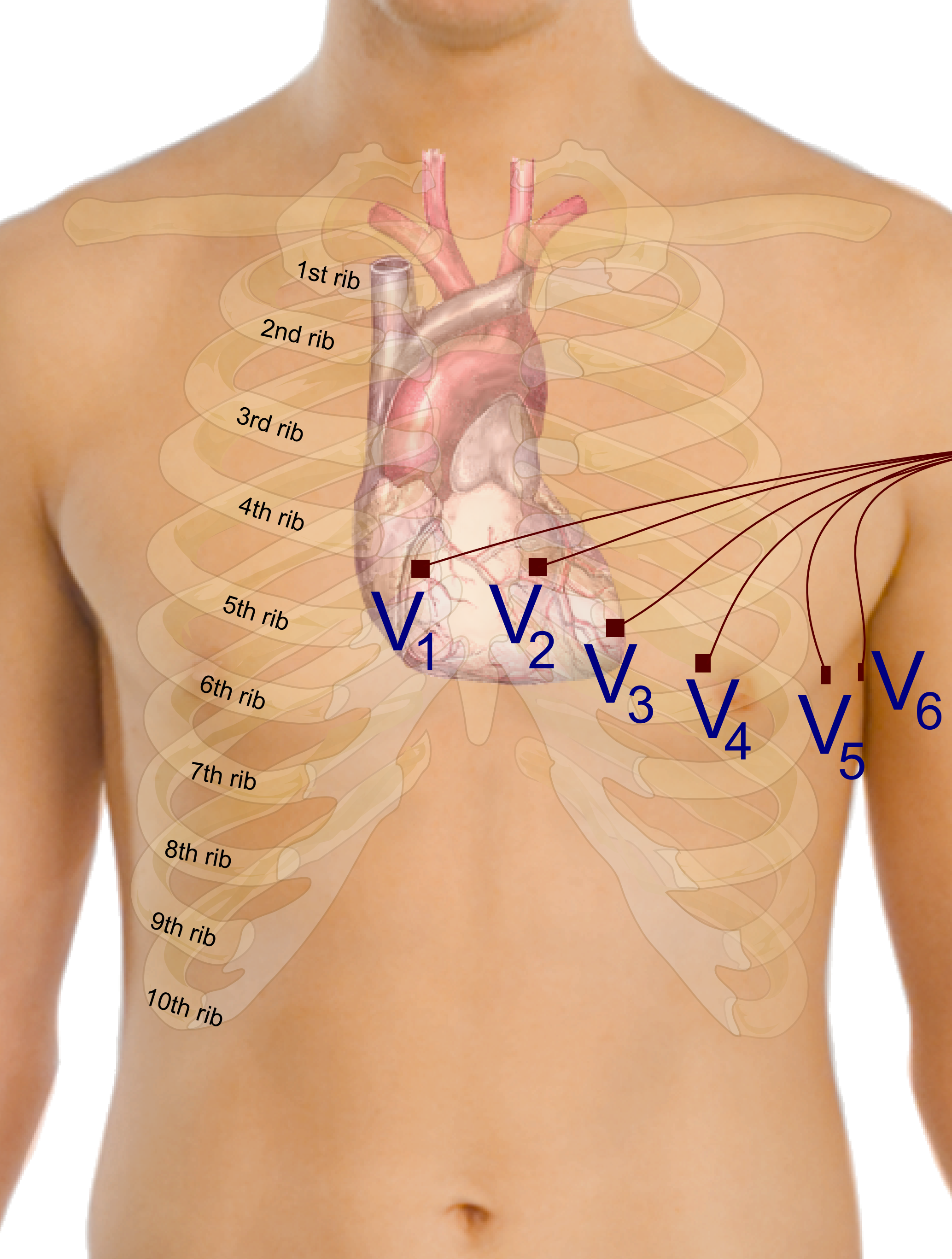 Placement of the precordial leads in electrocardiography.